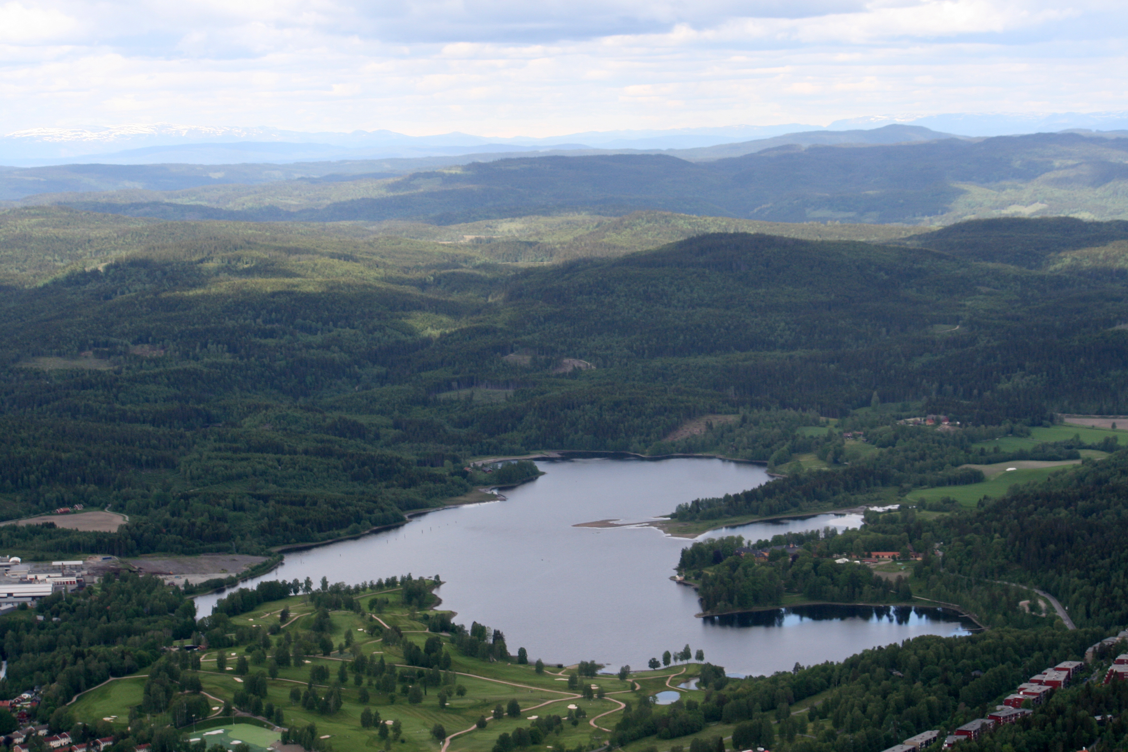 Aerial photograph from June 14th, 2015.